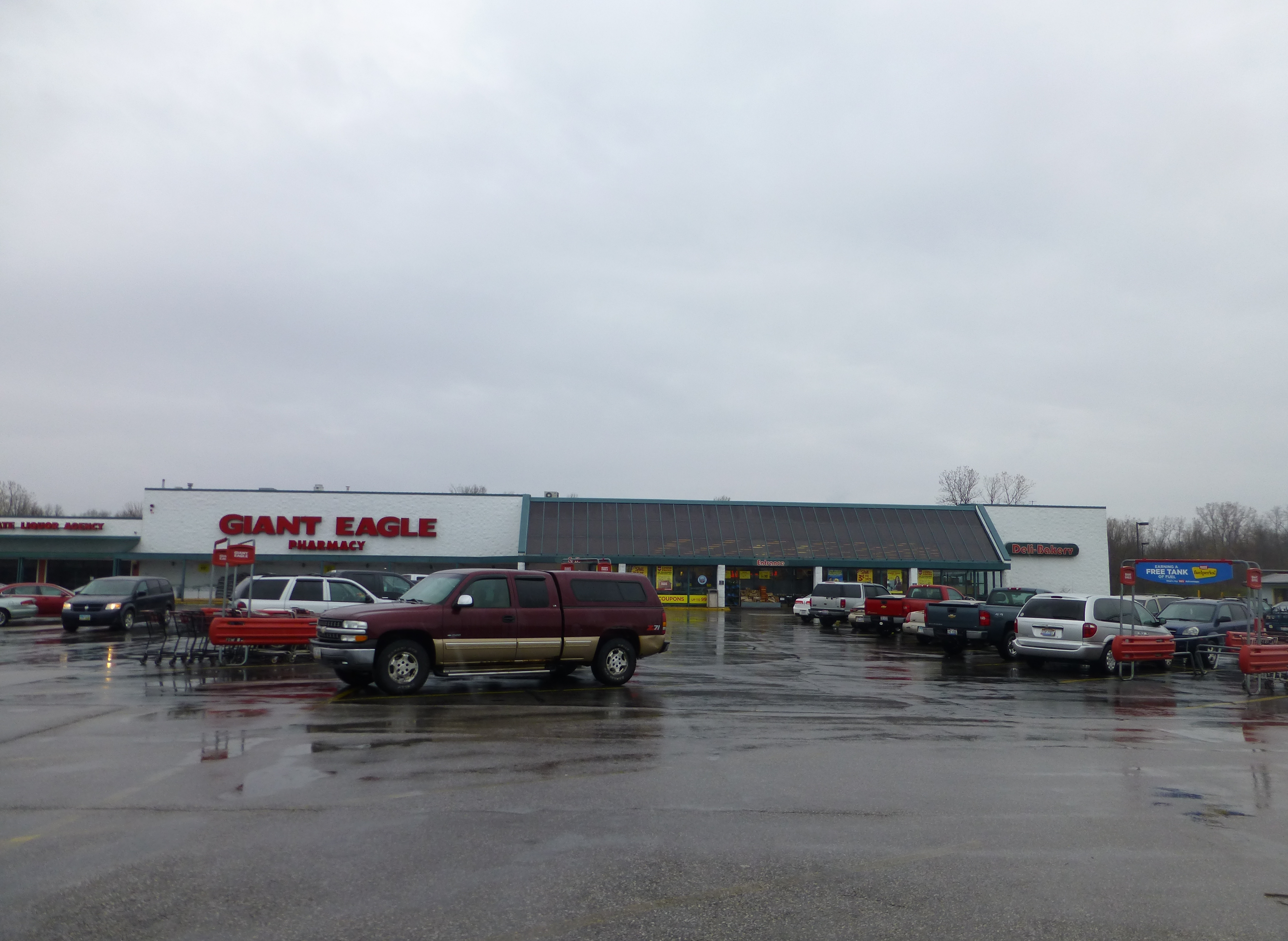 This is former Kroger store now occupied by Giant Eagle. Kroger vacated this store in Vermilion, Ohio when they pulled out of Northeastern Ohio.